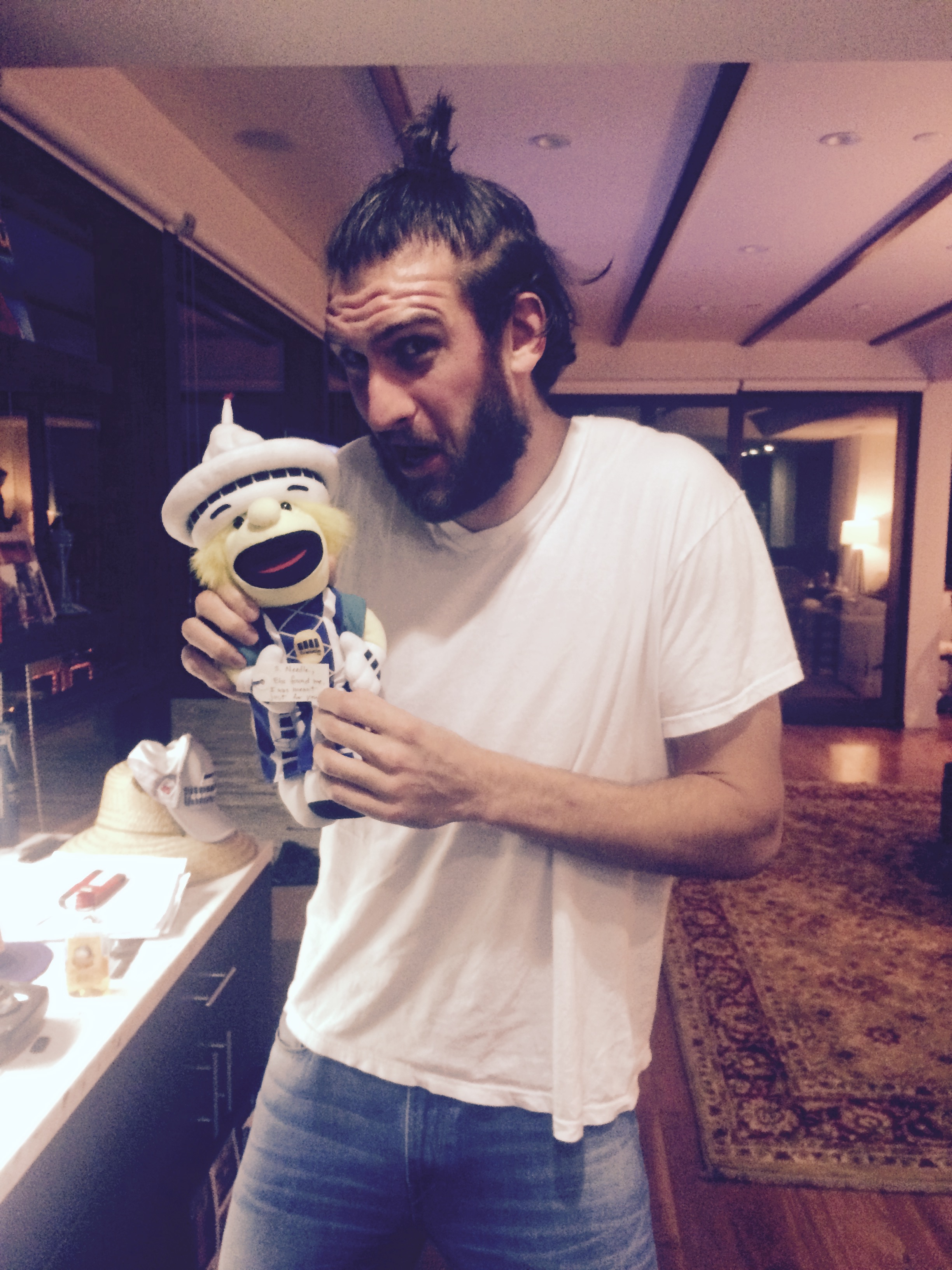 Hawes in 2015